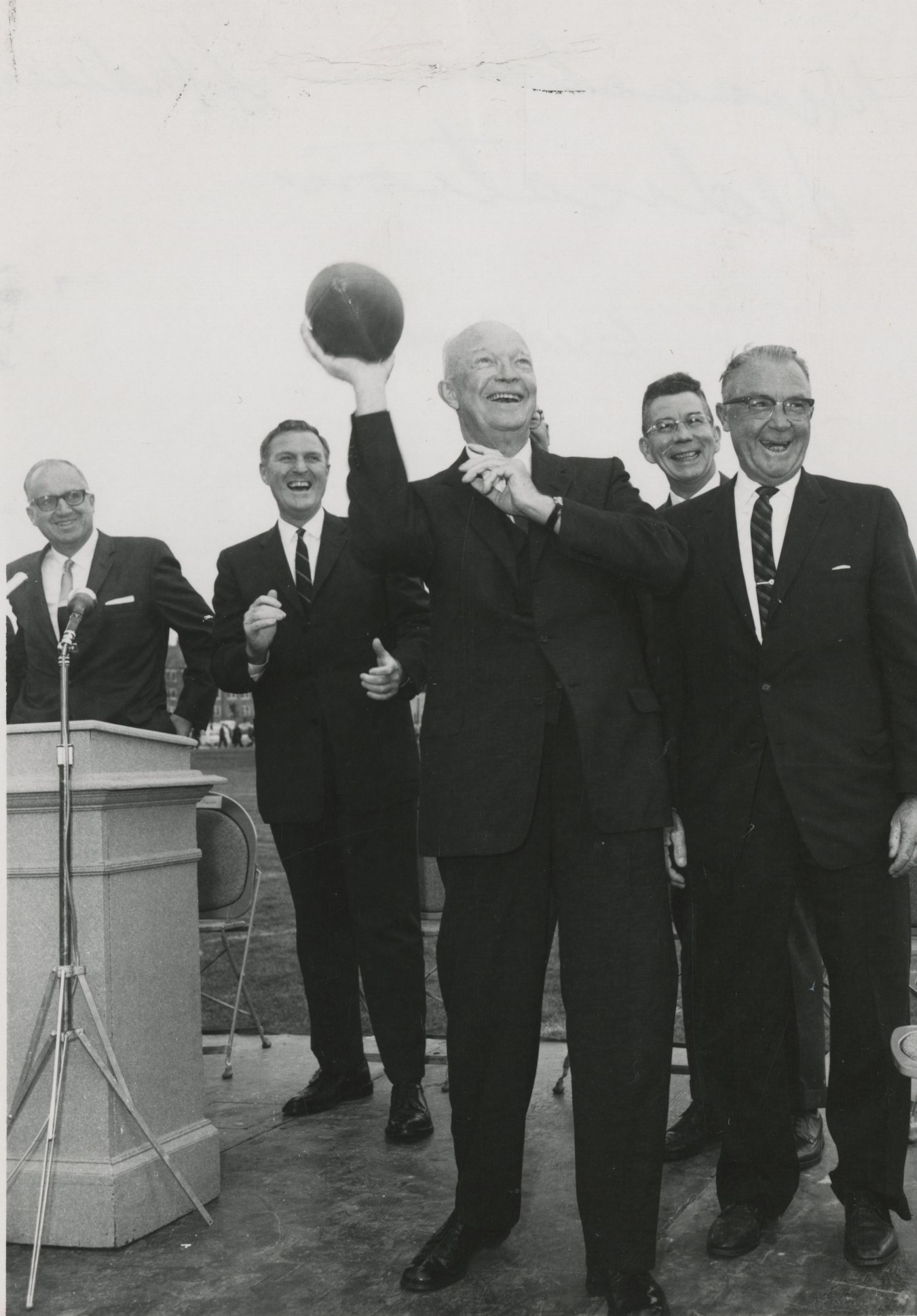 Gettysburg College Football Stadium Dedication